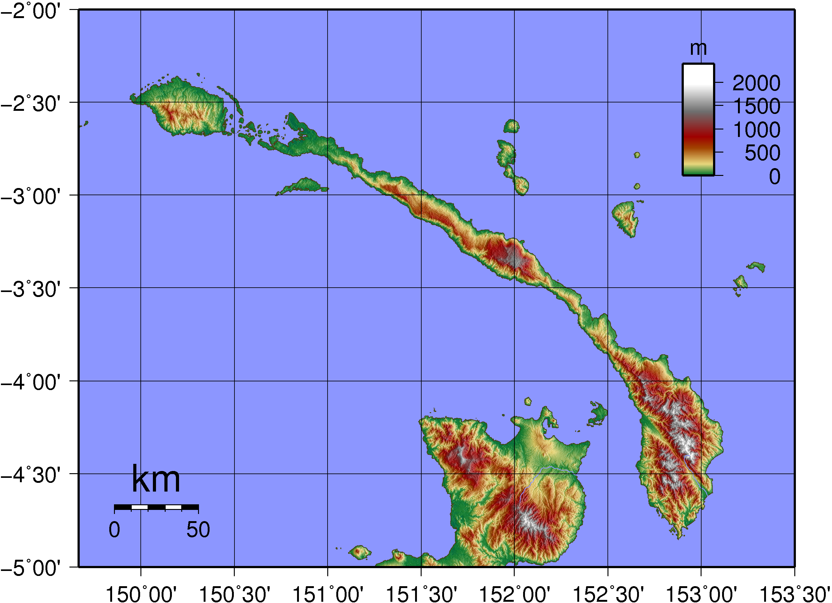 Topographic map of New Ireland in Papua New Guinea. Created with GMT from publicly released SRTM data.